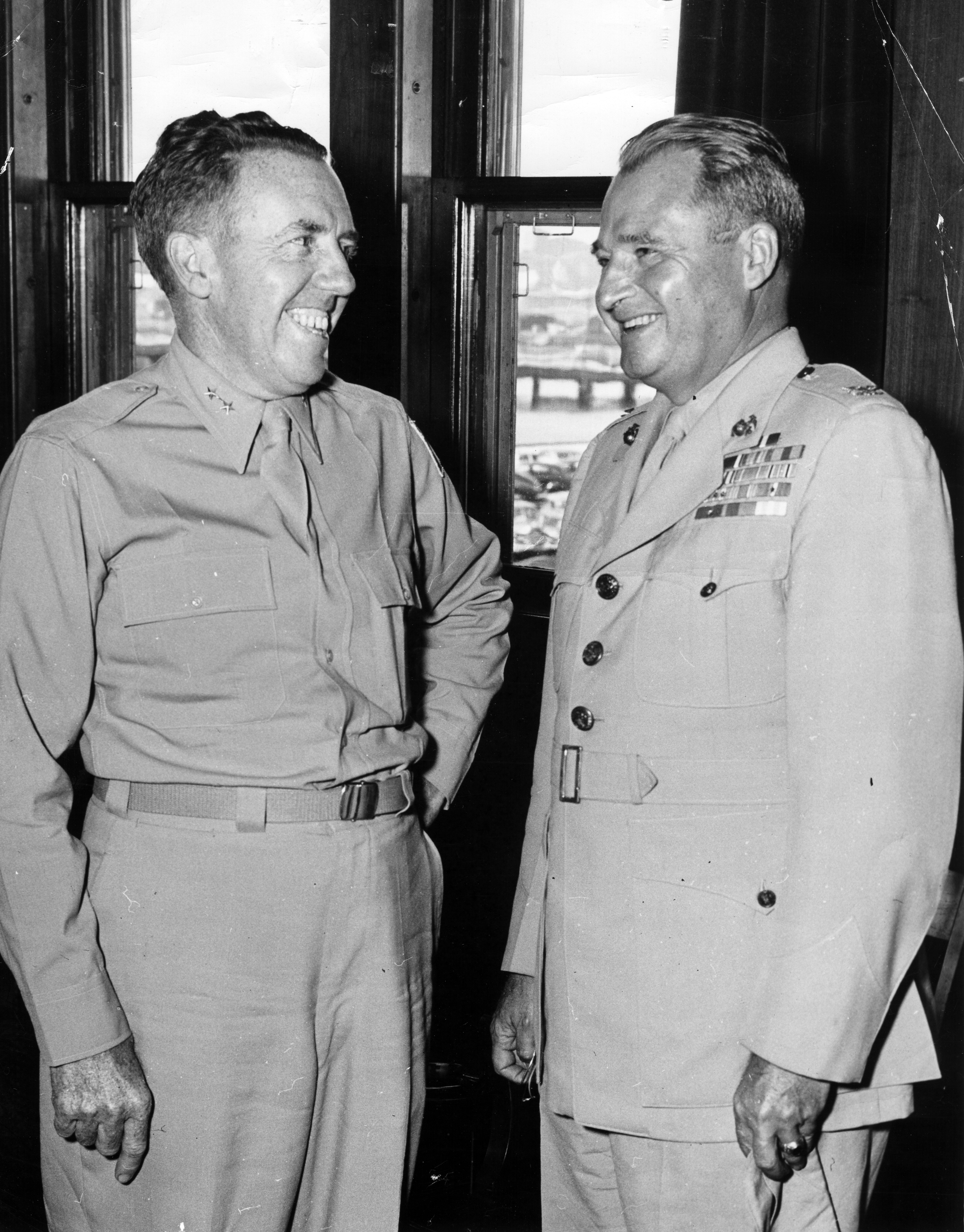 Major general Frank A. Keating, USA (left), commanding general of the New England Military District, welcomes Colonel George J. O'Shea, USMC, to Boston, where the latter has taken over new duties as Director of the First Marine Corps Reserve District. Colonel O'Shea visited General Keating in his office at the Boston Army Base.